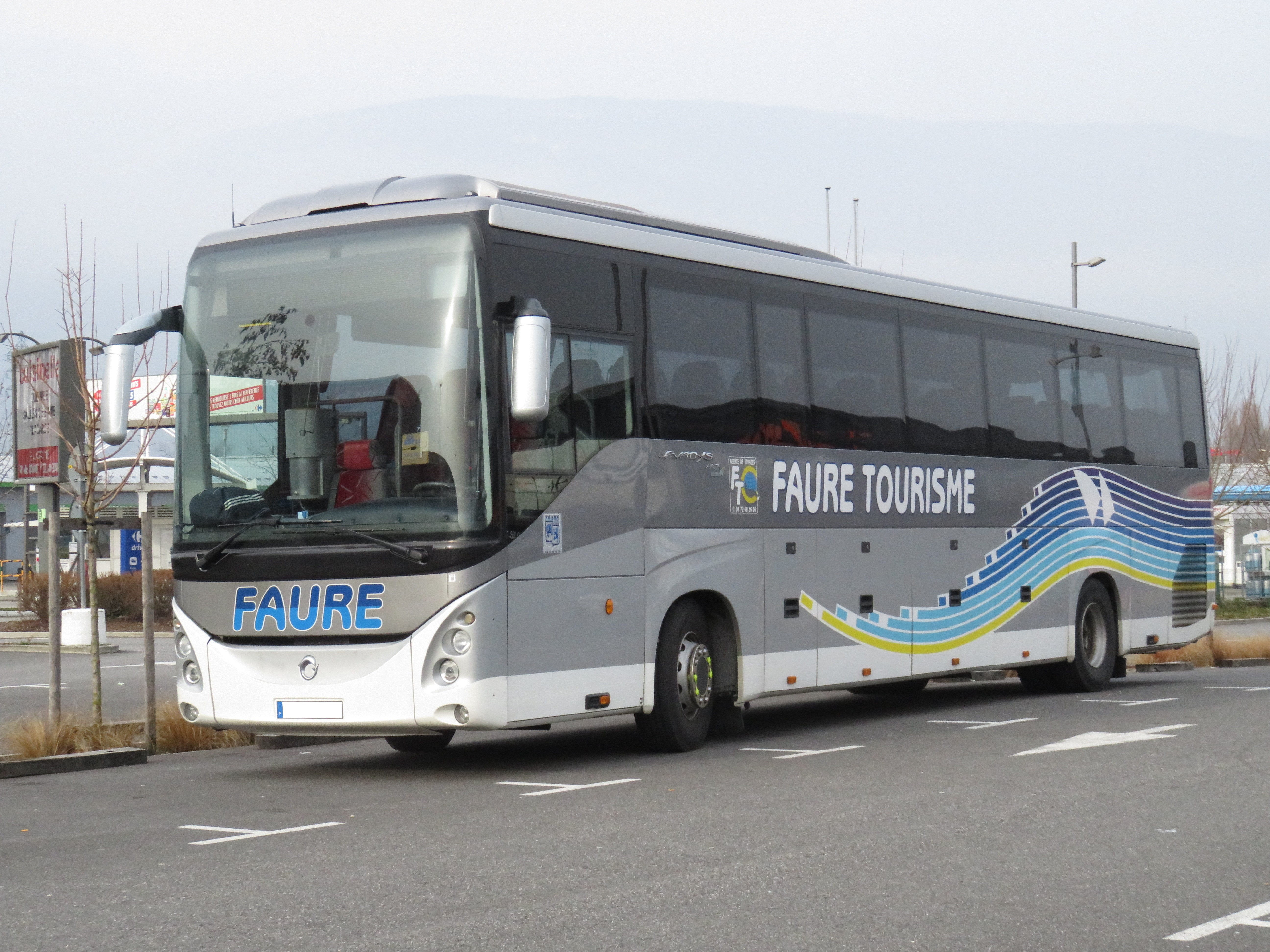 An Irisbus Evadys HD (Faure Tourisme) on the parking of the commercial center Chamnord (Chambéry, France) on January 14, 2018.